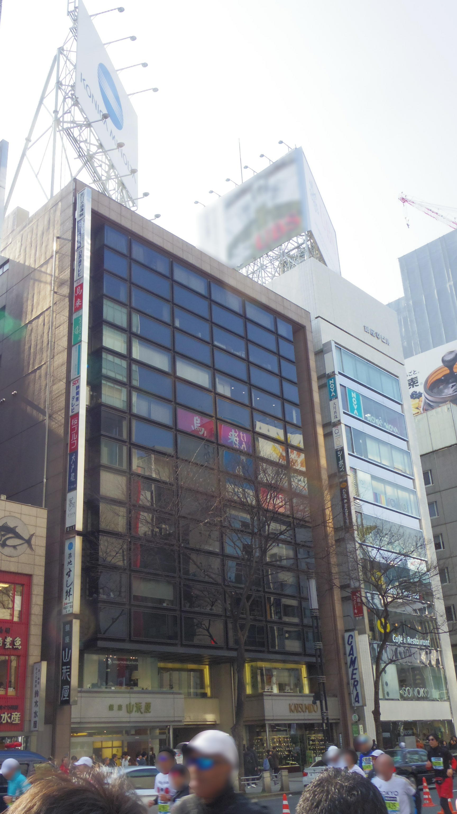 Ginza Coty Building (5Chome 9-1, Ginza, Chuo, Tokyo)